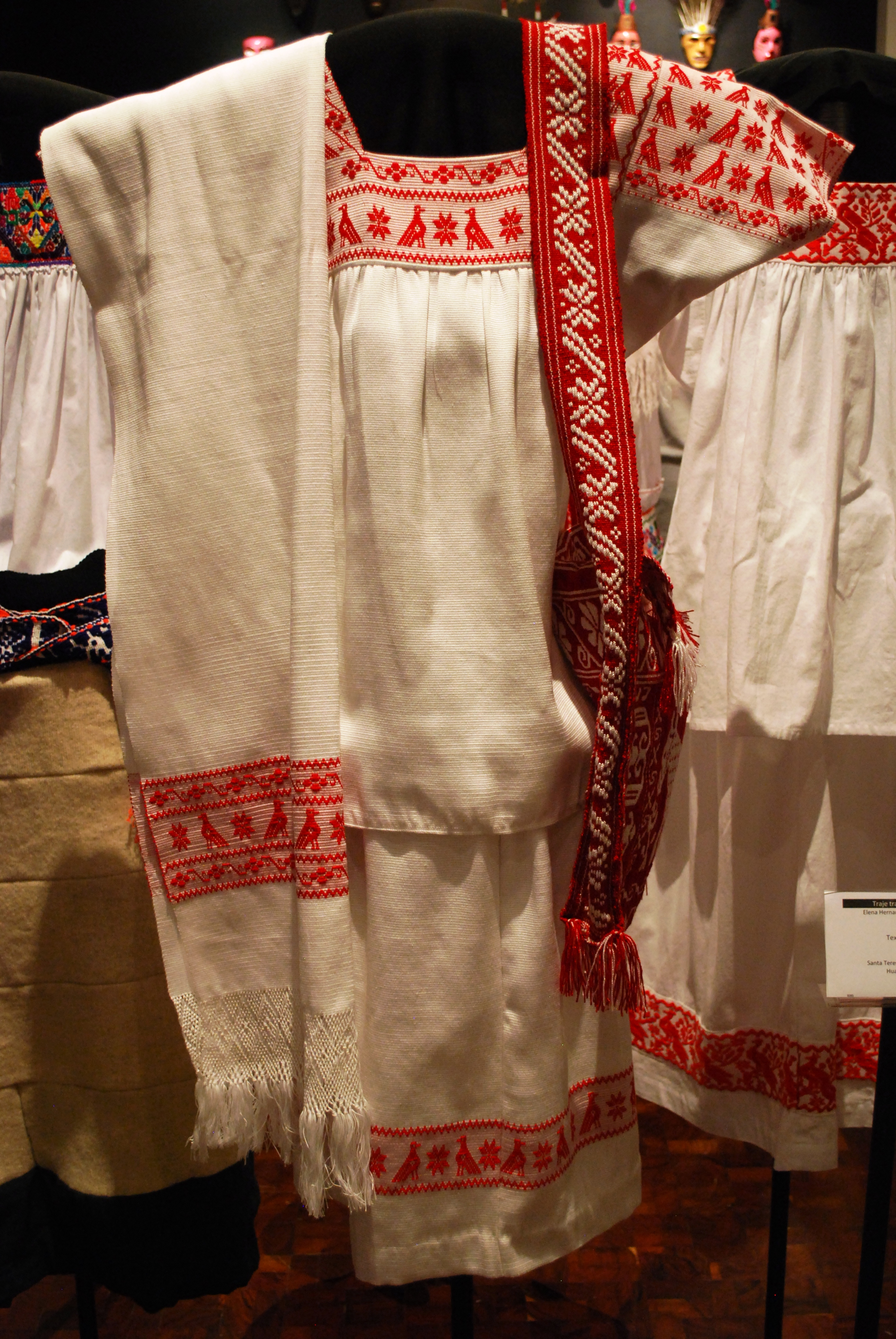 Traditional outfit by Elena Hernanda Bautista from Santa Teresa Yahualica in Hidalgo. Part of a temporary exhibit dedicated to the state at the Museo de Arte Popular, Mexico City